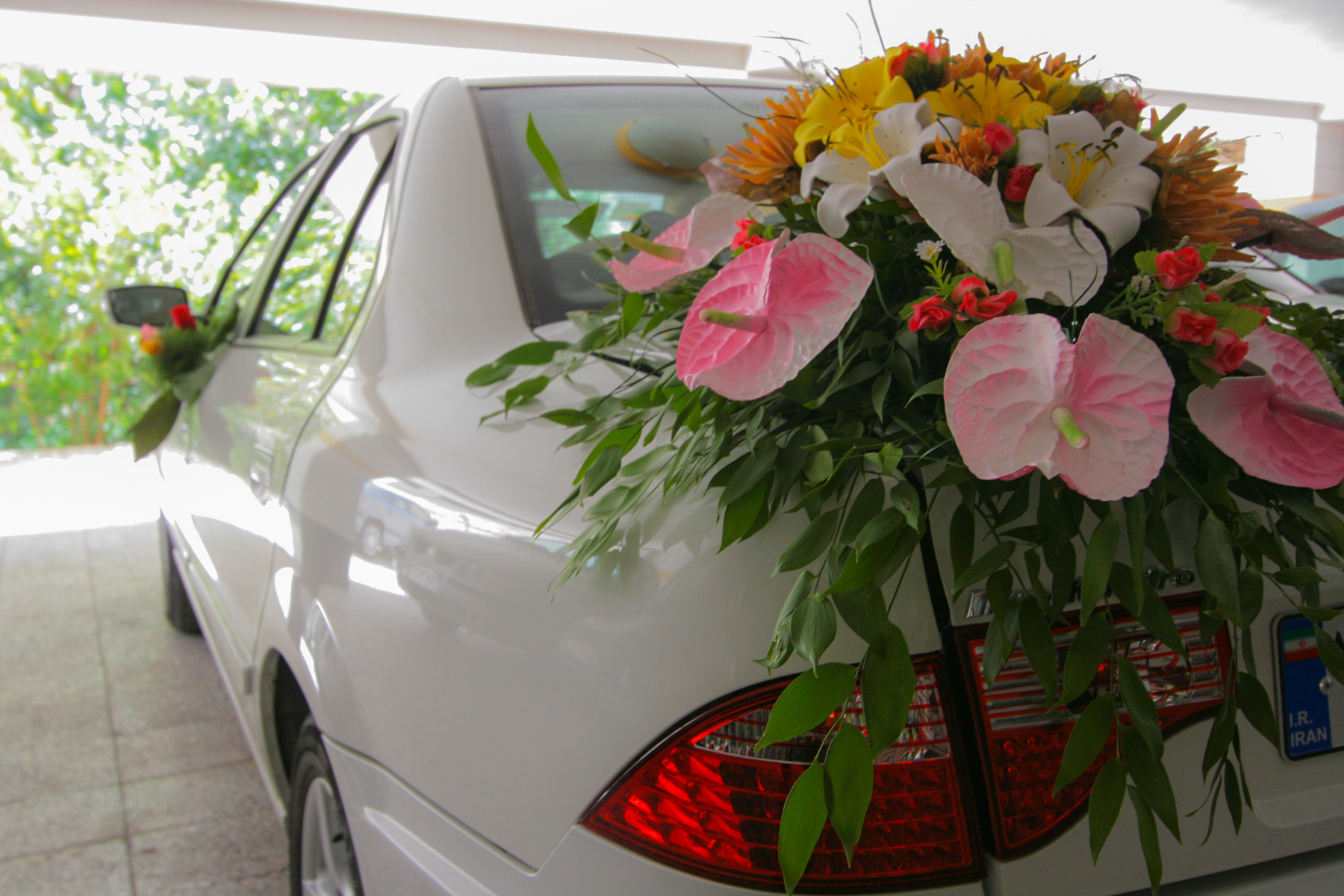 Wedding ceremonies